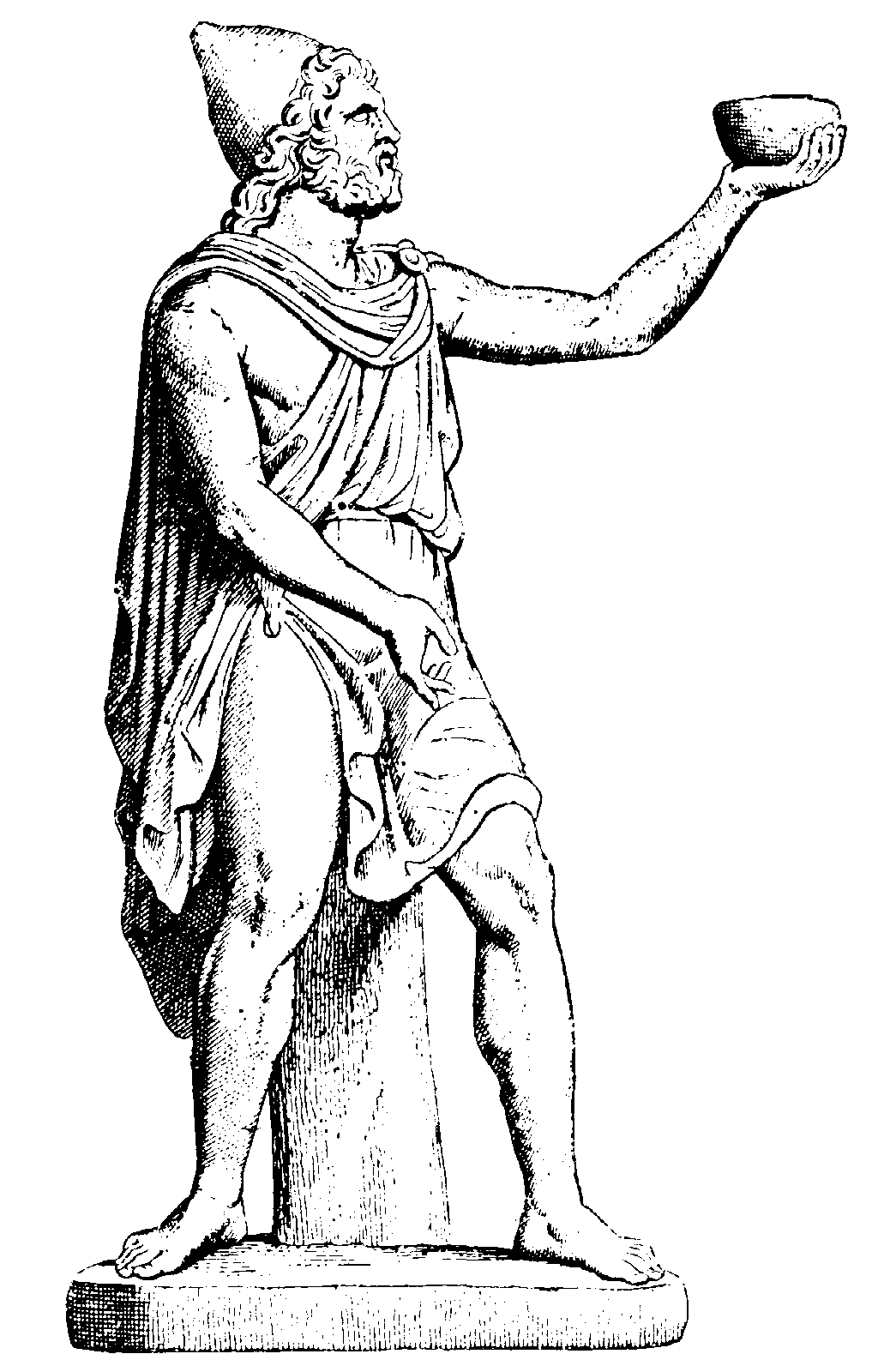 Odysseus offering wine to the Cyclops. Ancient statue in the Vatican, Rome.